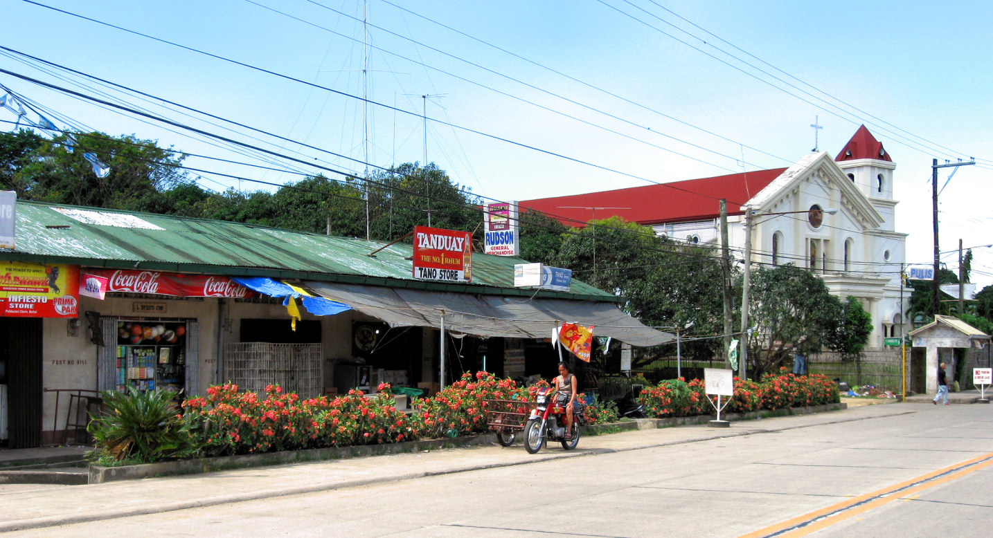 Clarin, Bohol, Philippines